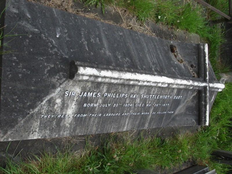 Grave of James Kay-Shuttleworth at Brompton Cemetery.